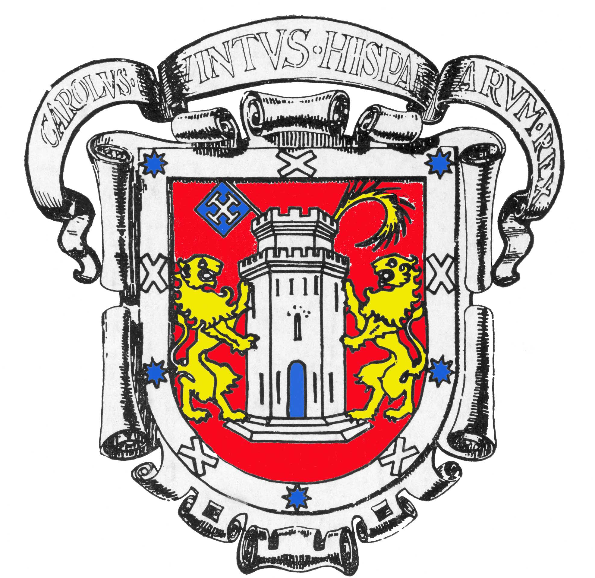 Huejotzingo, Puebla, Mexico: coat of arms conceded 1553.